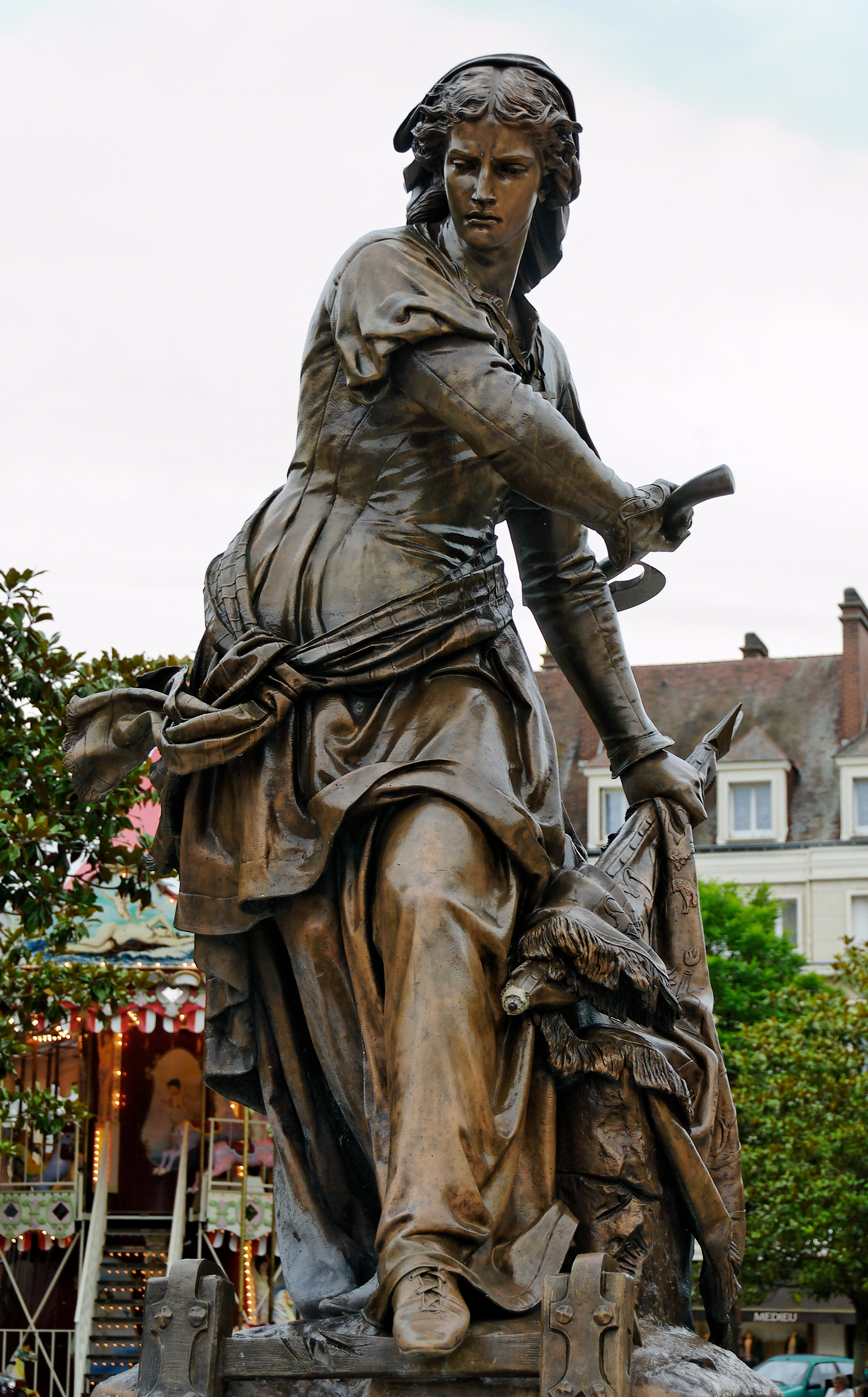 Bronze statue of Jeanne Hachette by Gabriel-Vital Dubray (1813-1898), in the homonymous place in Beauvais.